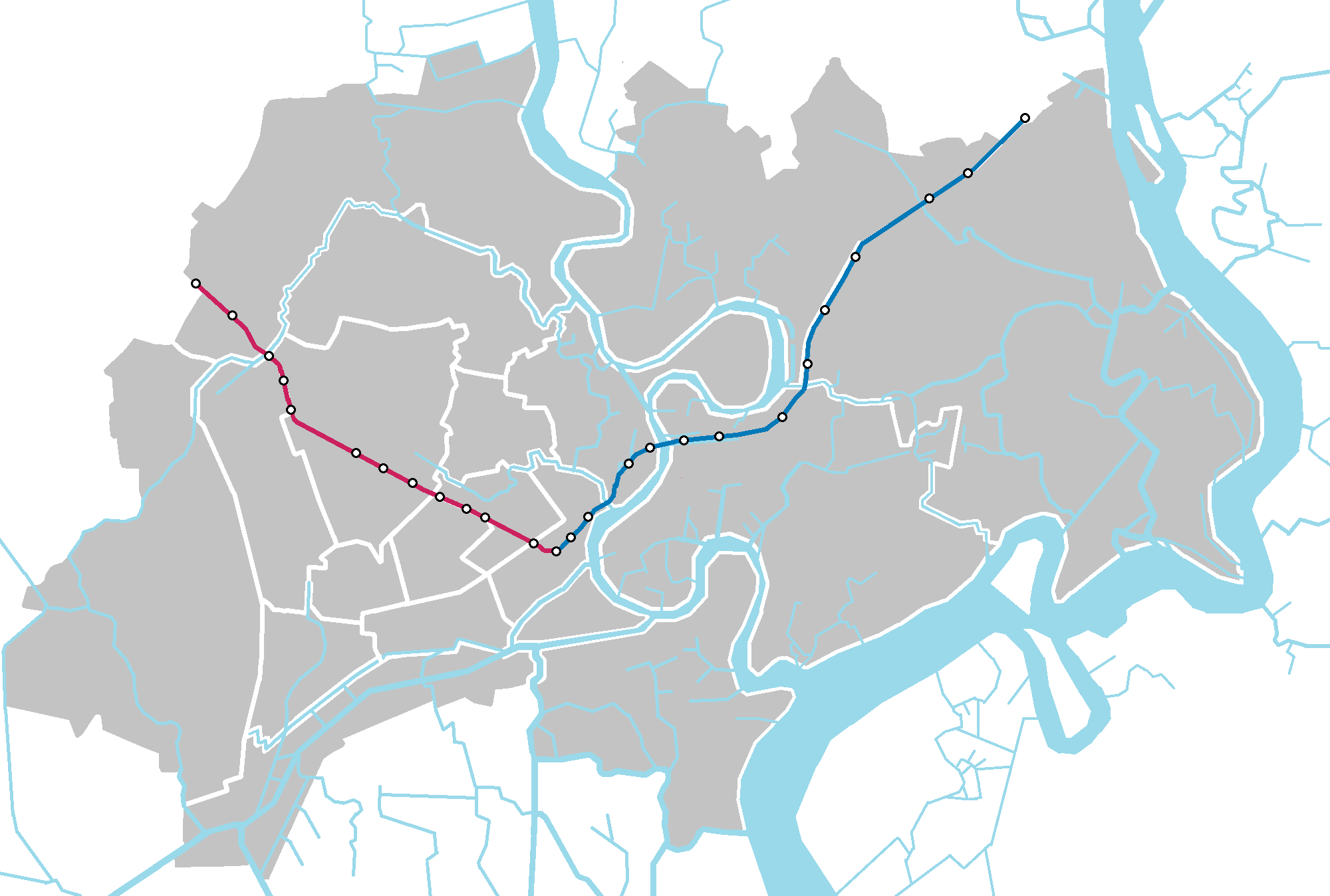 Ho chi minh City (Saigon) metro under construction map